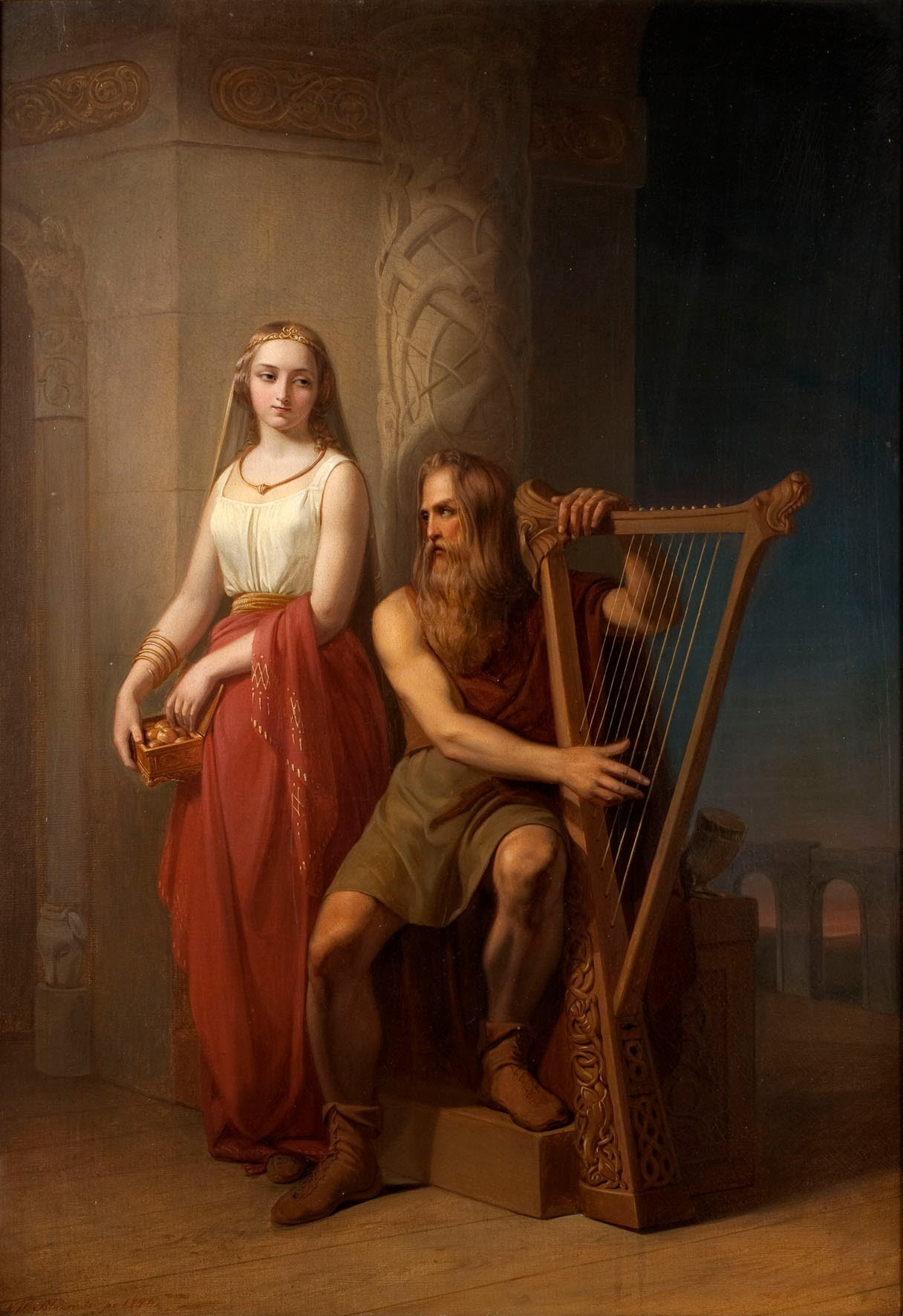 Iðunn is holding her apples of youth.